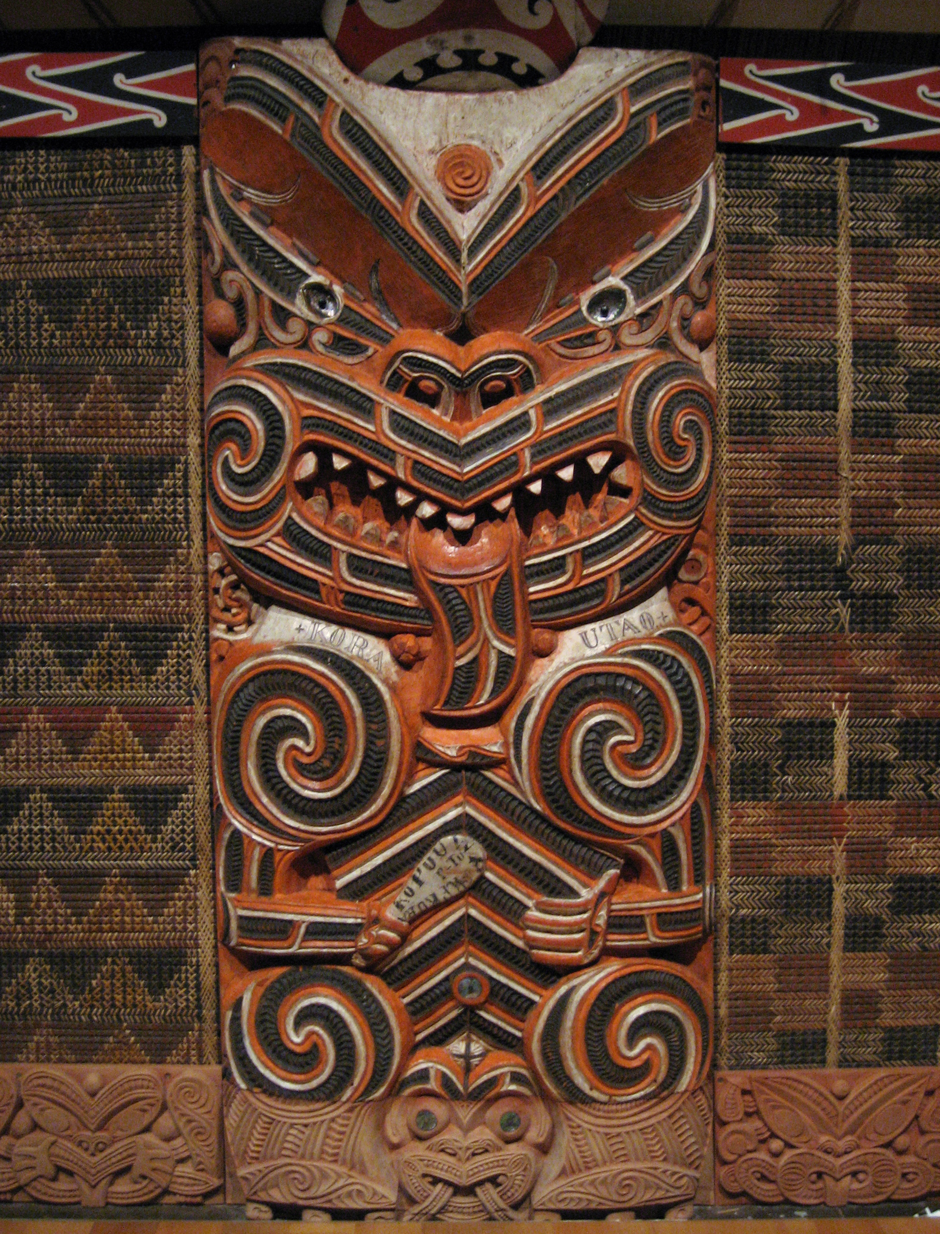 Poupou (wall post) depicting Rautao, an ancestor of the Ngāti Maru people, Thames, New Zealand. This wall post is from Hotunui, a carved meeting house built in 1878 by Ngāti Awa carvers from Whakatane, as a wedding present when Mereana Mokomoko, a woman of their tribe, married Wīrope Hōterene Taipari, a Ngāti Maru leader. The house has been in the Auckland War Memorial Museum since about 1920. The carving is flanked by decorative tukutuku panels.